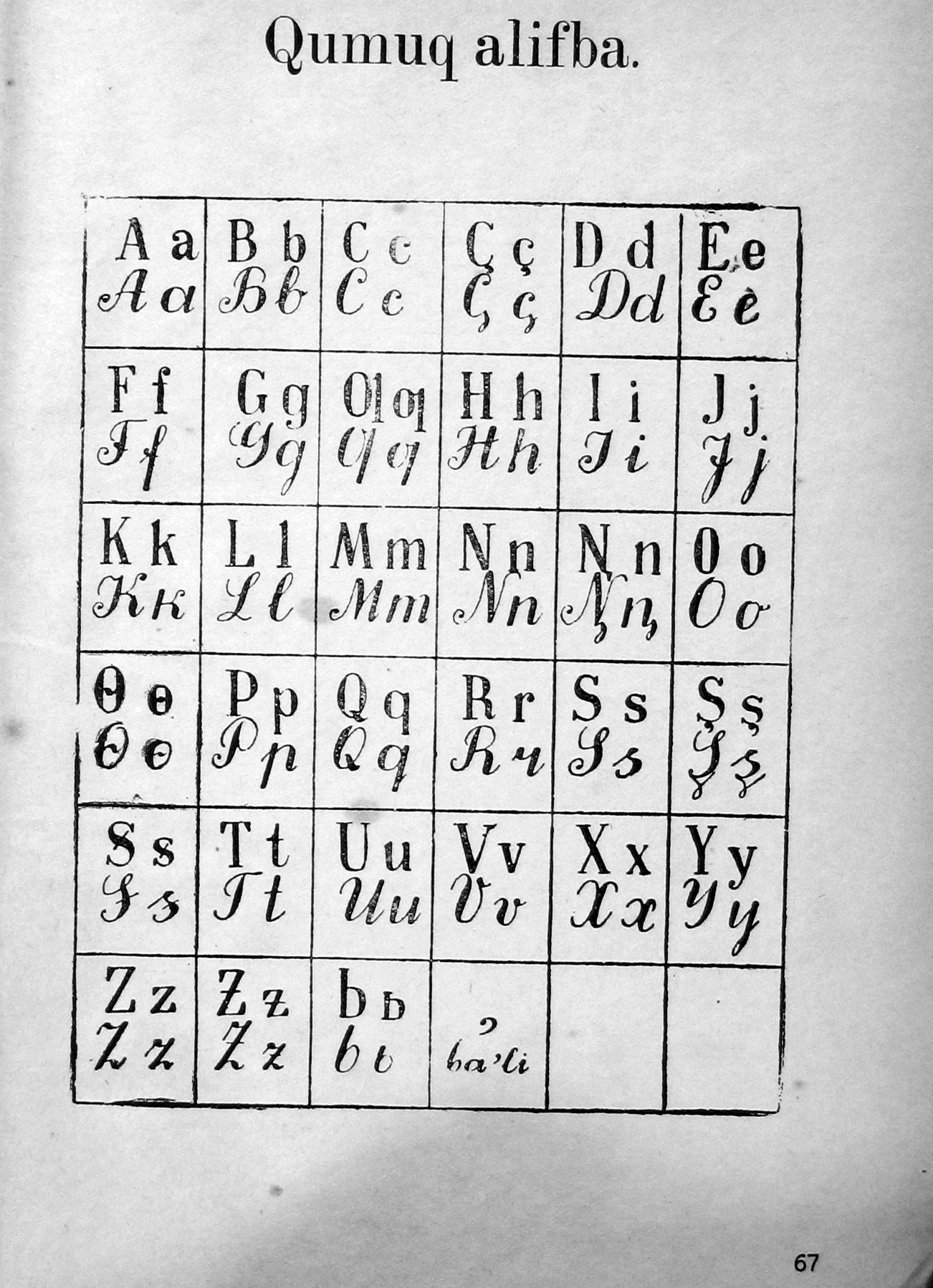 Scan from Kumyk book 'Alifba' (1935)